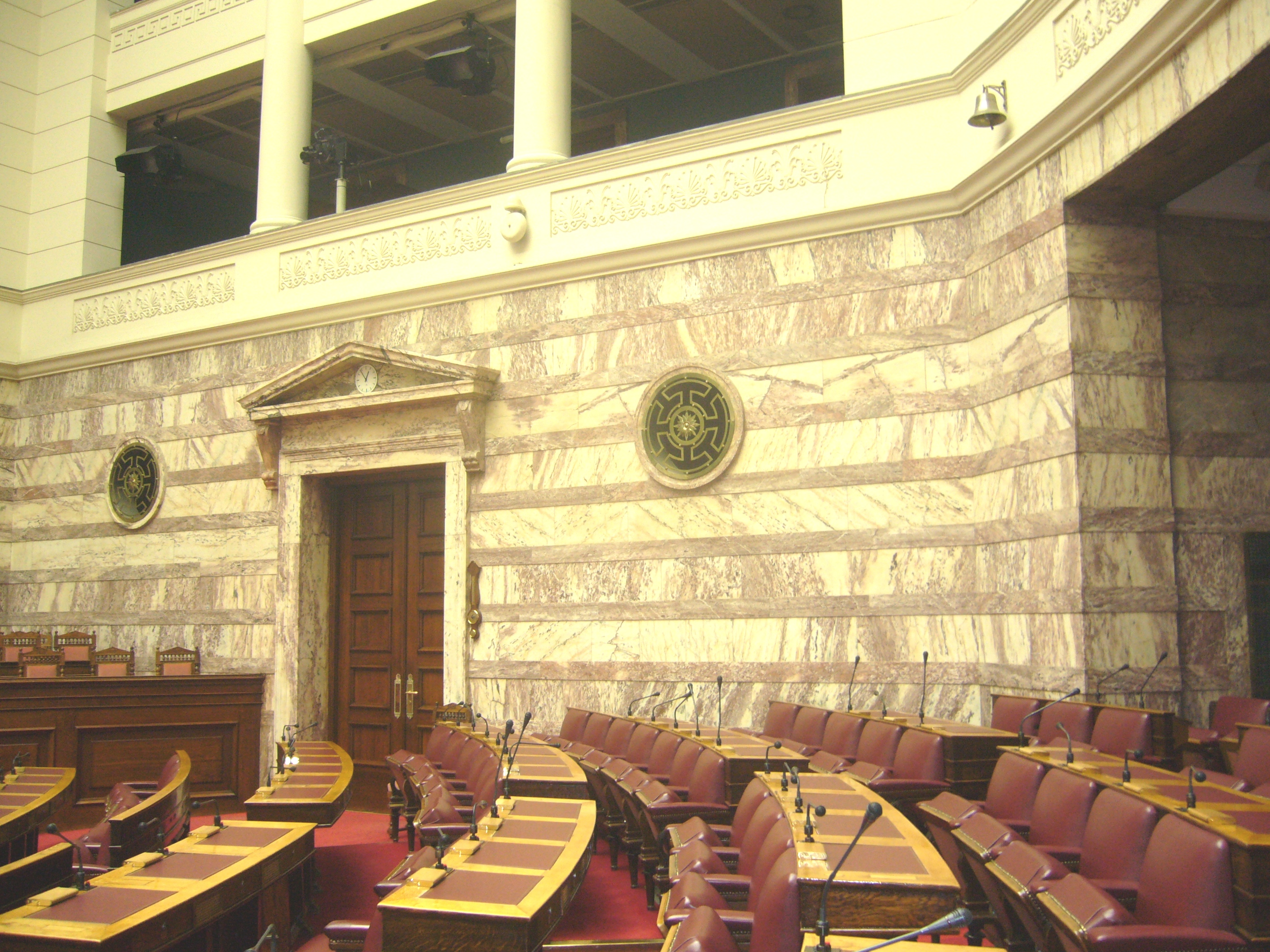 Photo of the internal hall of the Greek Parliament.